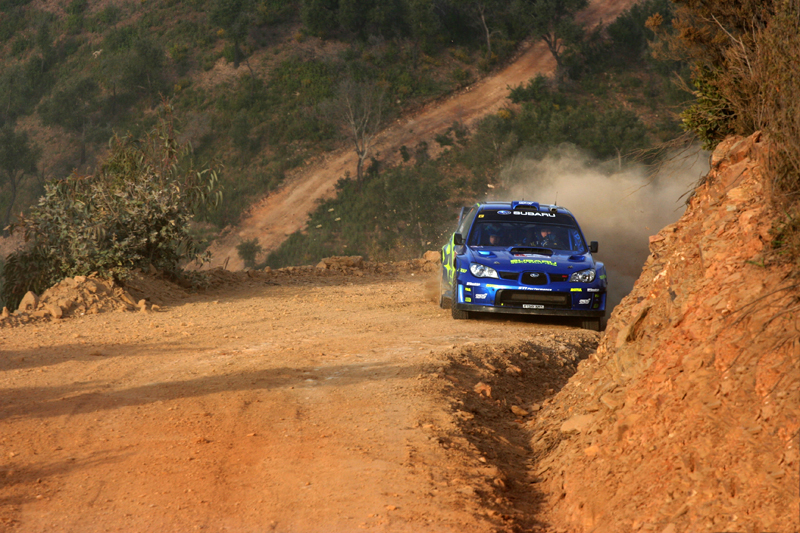 Petter Solberg driving his Subaru Impreza WRC2007 at the 2007 Rally Portugal.